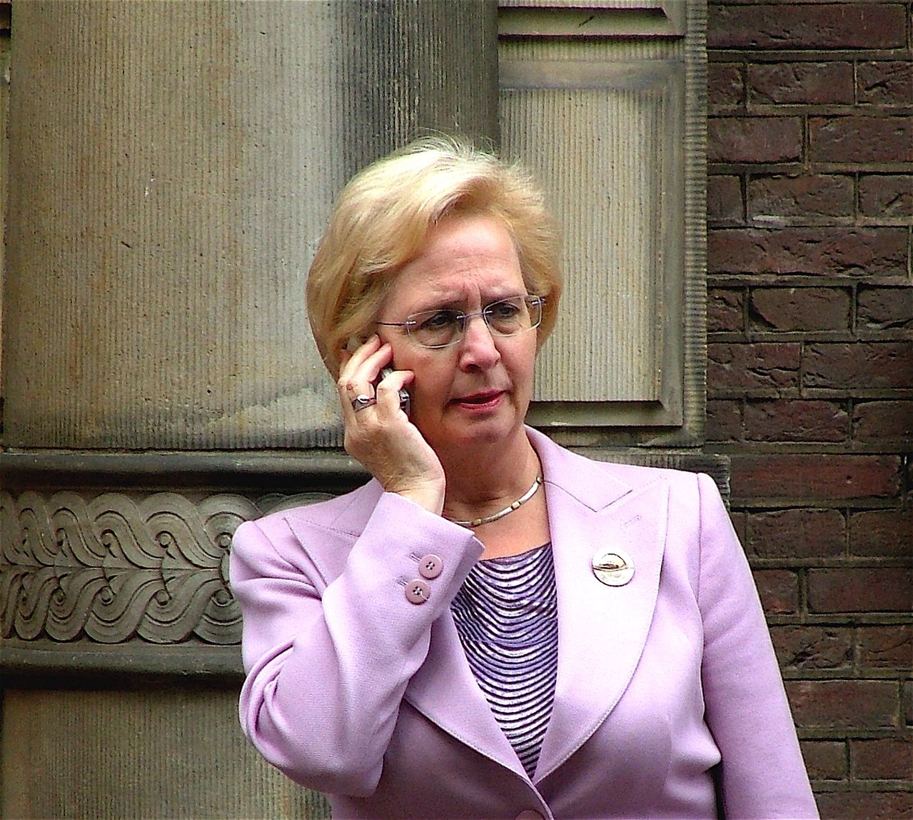 Agnes van Ardenne (first uploaded as File:Margreeth de Boer.jpg which is incorrect. This is Agnes van Ardenne